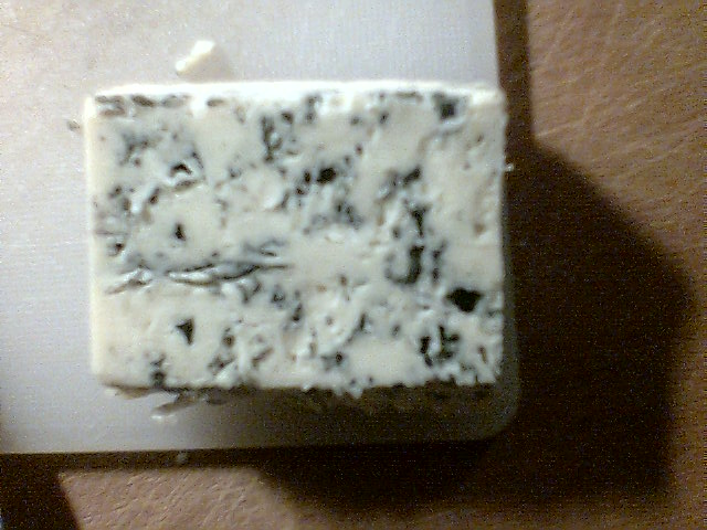 Piece of Ädelost